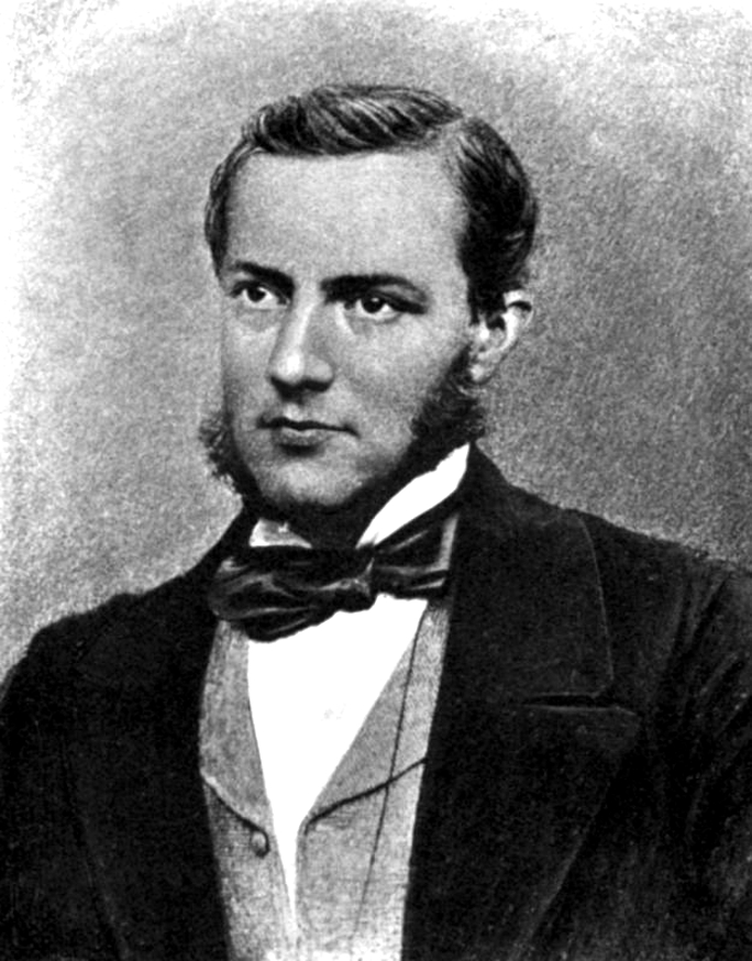 Photograph of Max Muller aged 30